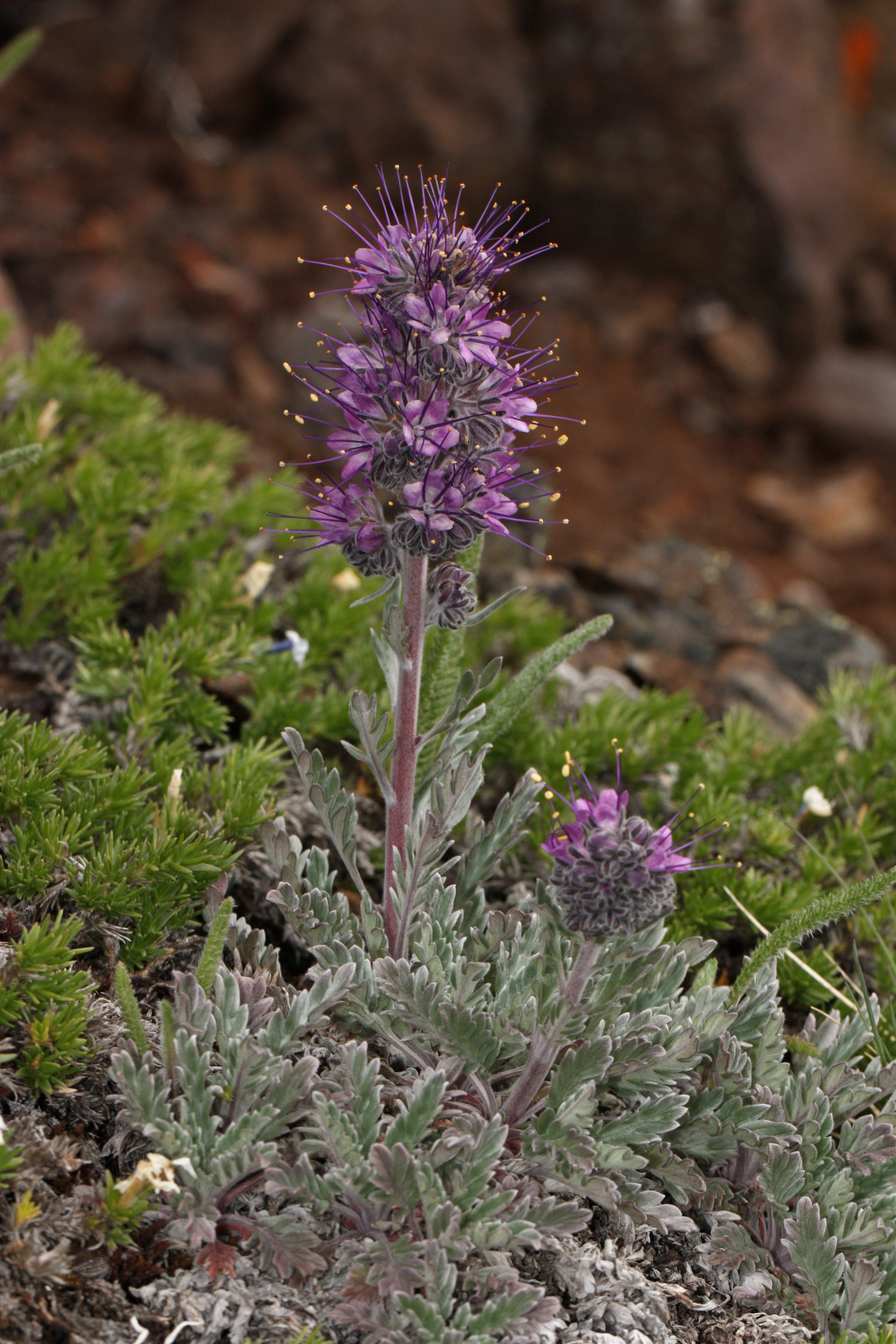 Silky Phacelia; Spreading Phlox (Phlox diffusa, left and behind, short with light green leaves and wilted white flowers) Viewpoint location: Blue Mountain (6000+ feet, 1829+ m), north ridge, Olympic National Park Viewpoint elevation: 1748 meter (5733 ft) Location source: Garmin GPSmap 60CSx Location Datum: WGS84